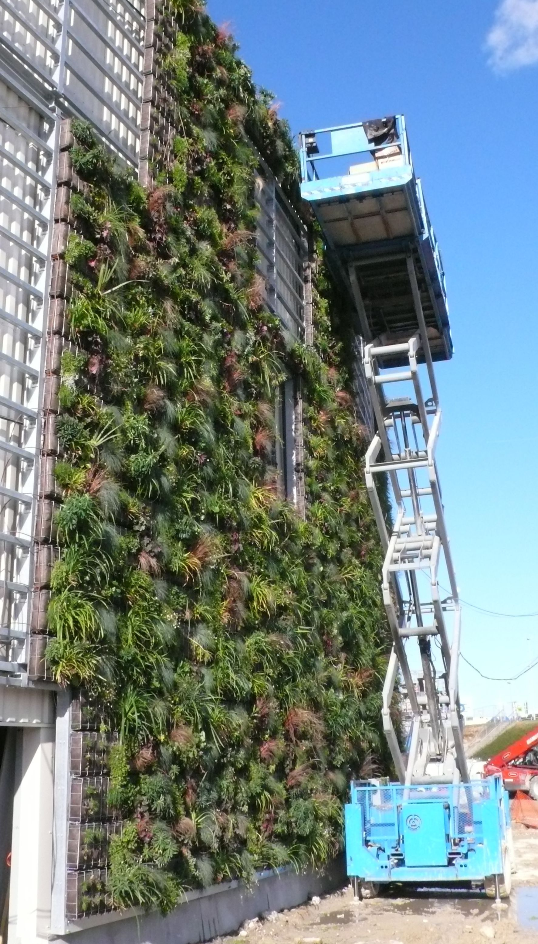 Implementation of the elements of a Green wall under construction, at the Shopping mall "Les Sentiers" in Claye-Souilly.